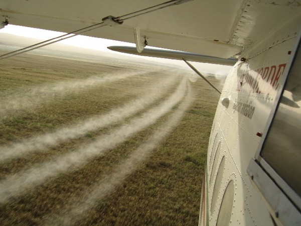 Flying low to the ground, an airplane sprays pesticide on wheat crops in the northern Iraqi province of Dahuk. The spraying was part of the Ministry of Agriculture's Operation Barnstormer.